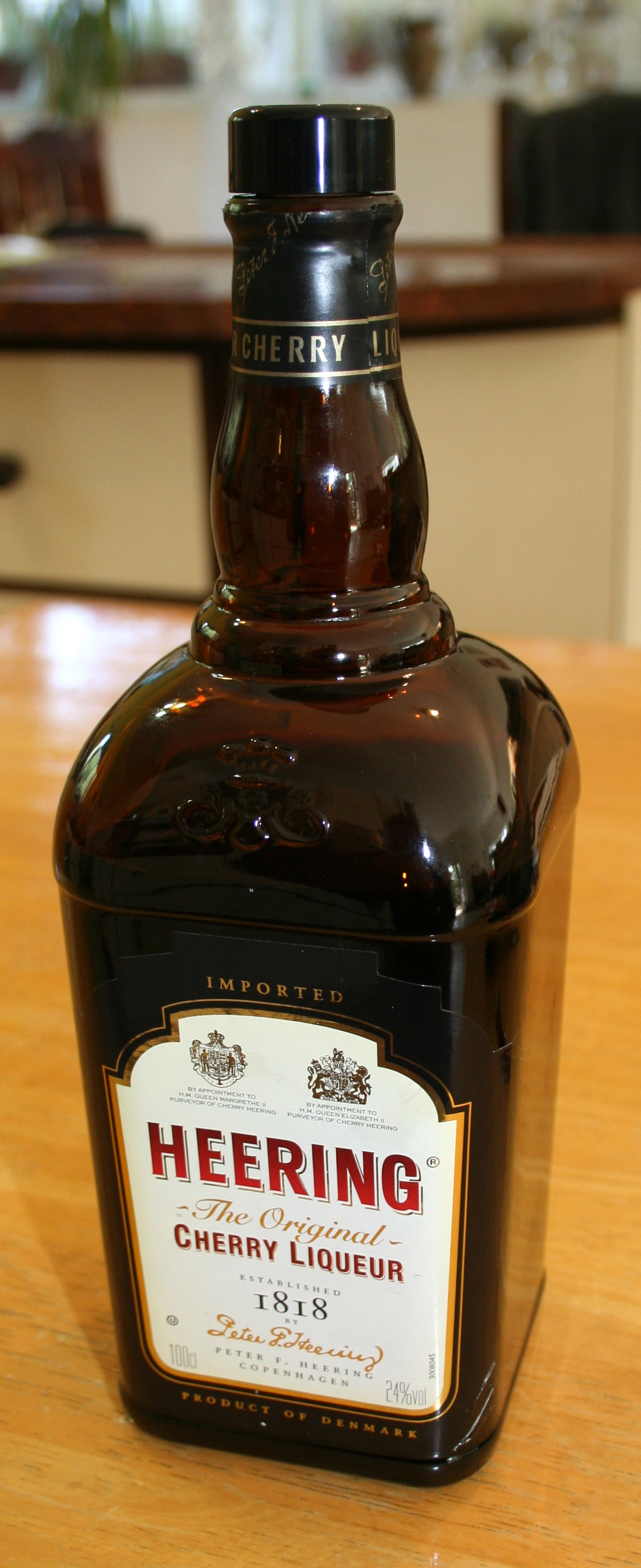 Bottle of Cherry Heering Liqueur